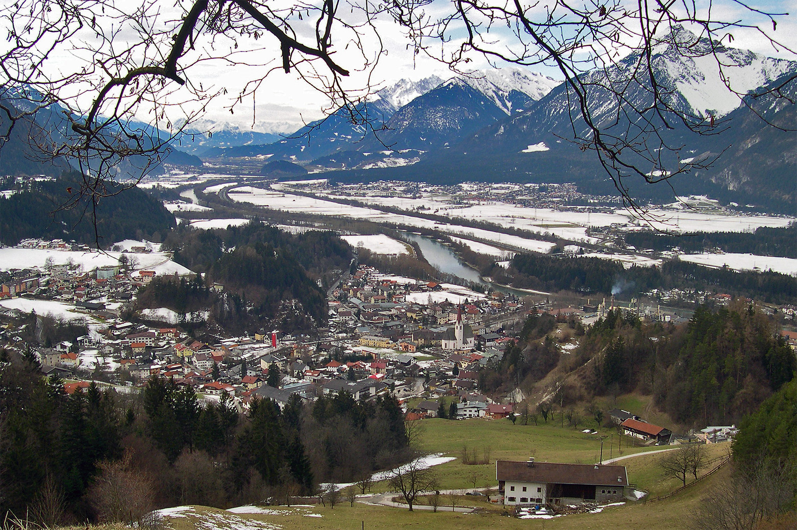 Brixlegg von Oben